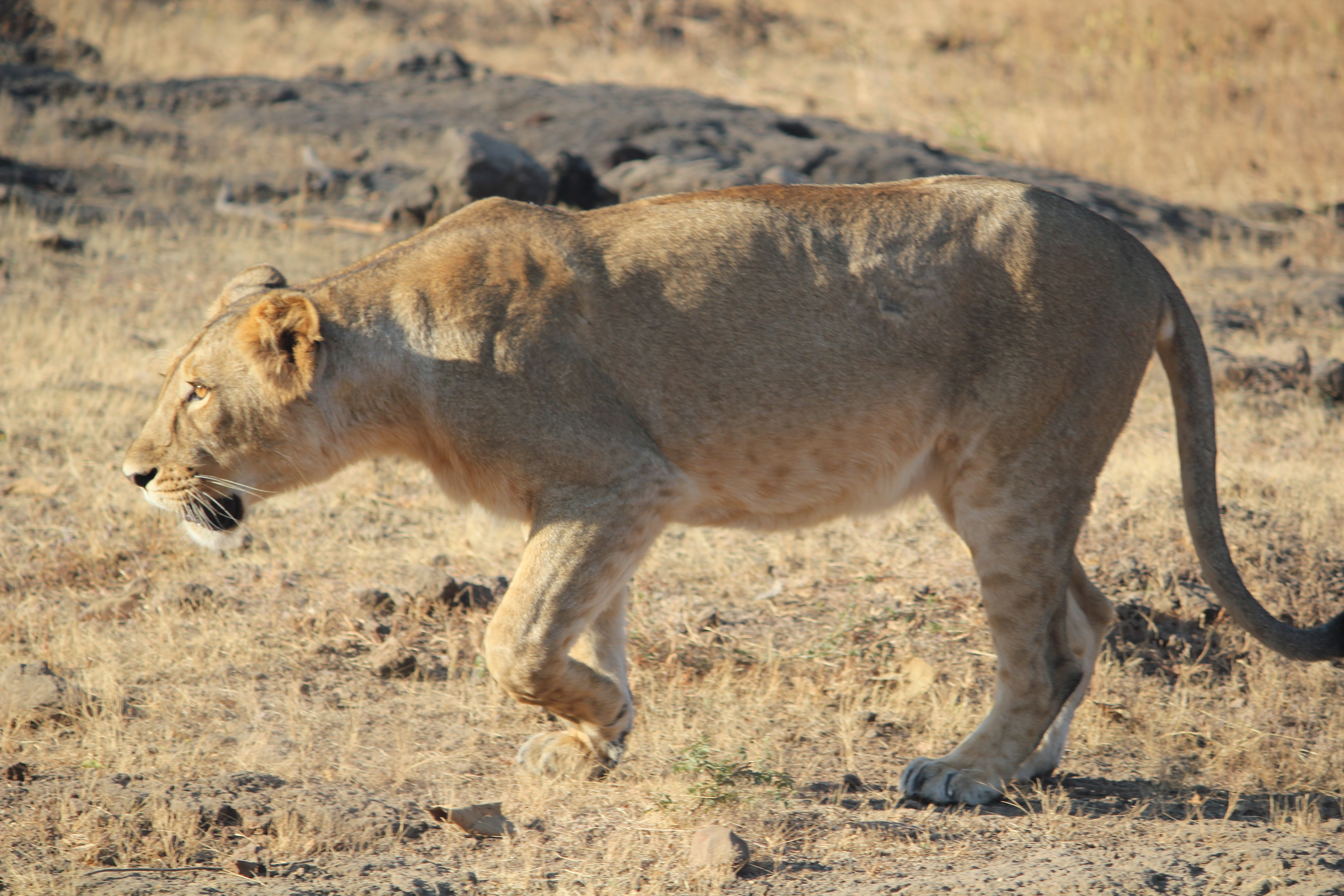 Sasan Gir, Asiatic lioness The Gir Forest National Park and Wildlife Sanctuary, also known as Sasan-Gir, is a forest and wildlife sanctuary in Gujarat, India. It was established in 1965, with a total area of 1412 km². It is the sole home of the Asiatic lions (Panthera leo persica) and is considered to be one of the most important protected areas in Asia due to its supported species. It is the world's only place where lions and tigers coexist. The ecosystem of Gir, with its diverse flora and fauna, is protected as a result of the efforts of the government forest department, wildlife activists and NGOs. The forest area of Gir and its lions were declared as "protected" in the early 1900s by the Nawab of the princely state of Junagadh. This initiative assisted in the conservation of the lions whose population had plummeted to only 15 through slaughter for trophy hunting. The April 2010 census recorded the lion-count in Gir at 411, an increase of 52 compared to 2005. The lion breeding programme covering the park and surrounding area has bred about 180 lions in captivity since its inception. (source